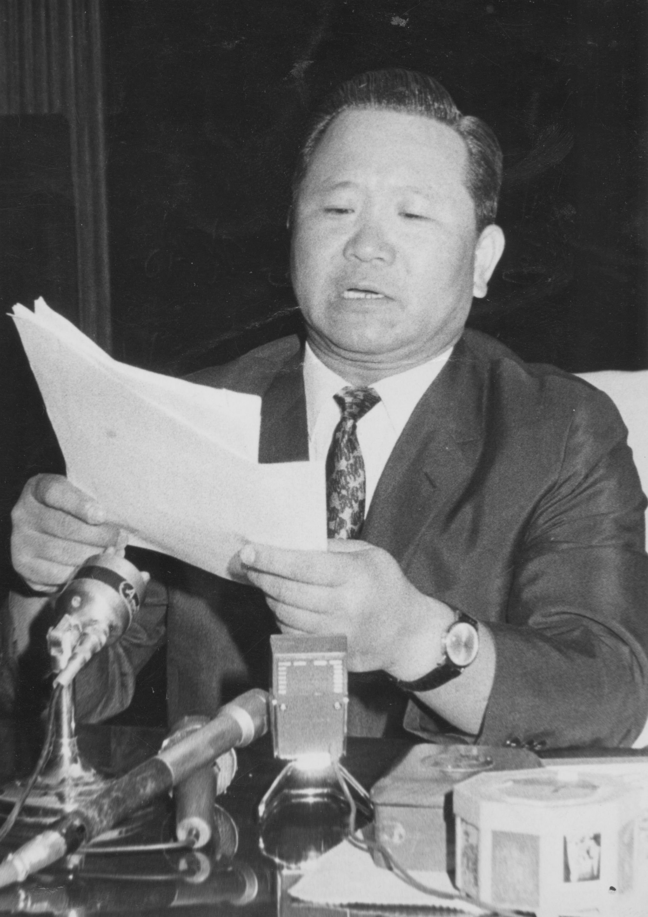 Kim Hyŏng-uk, director of the Korean Central Intelligence Agency, announced the case of the Unification Revolutionary Party.